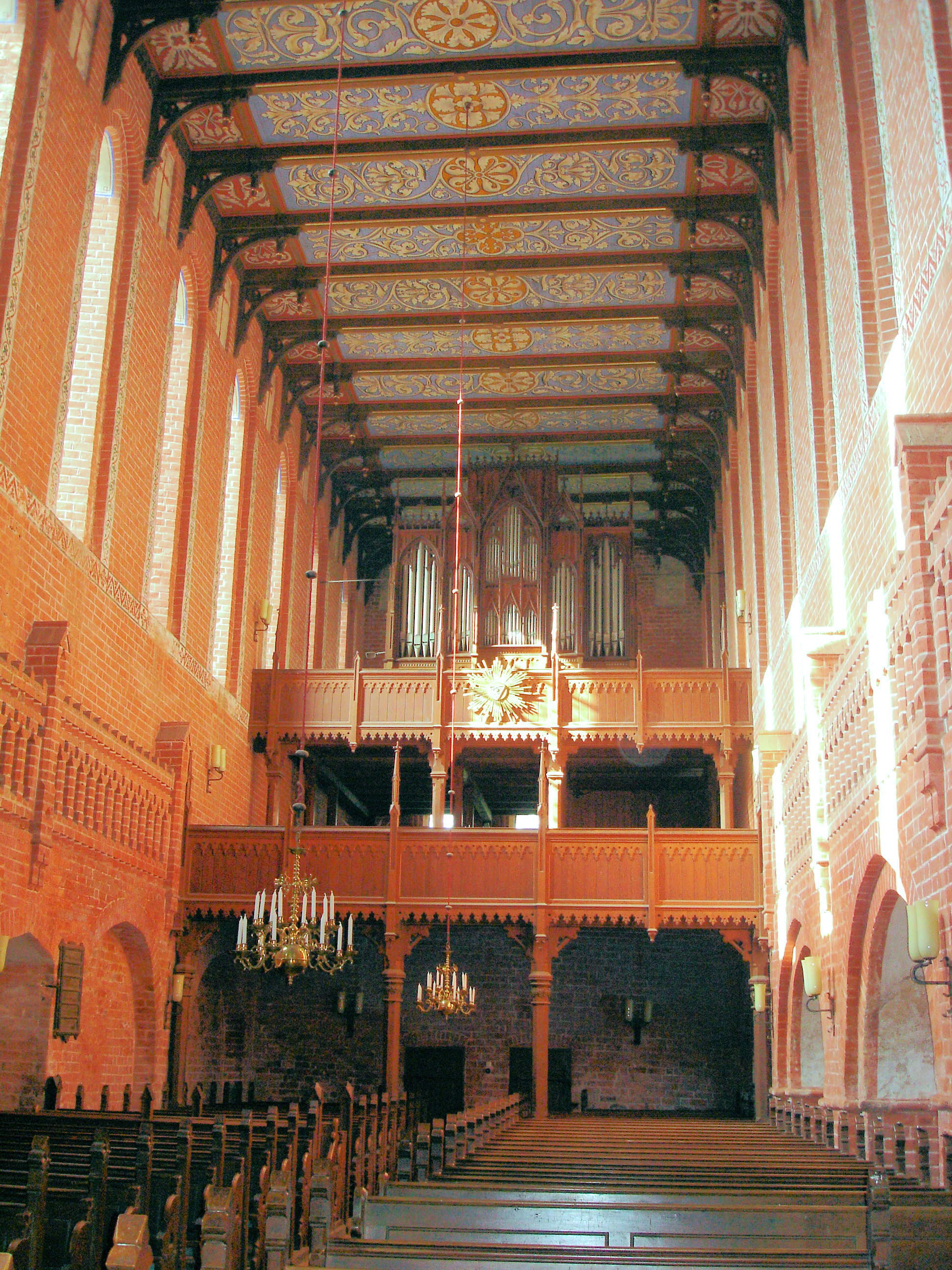 Minster in Neukloster, Mecklenburg, Germany